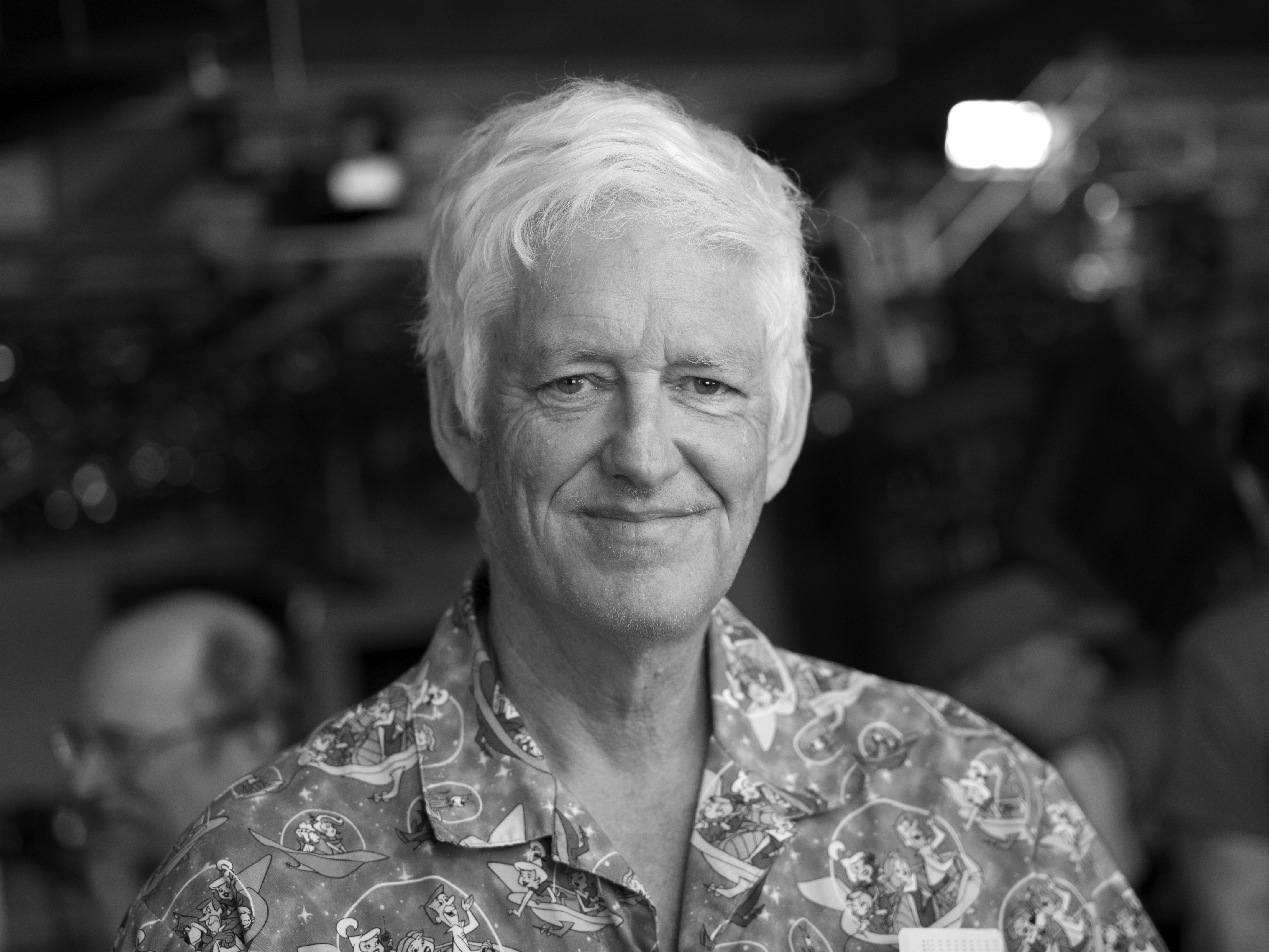 Peter Norvig in 2019 at the Interval by Christopher Michel